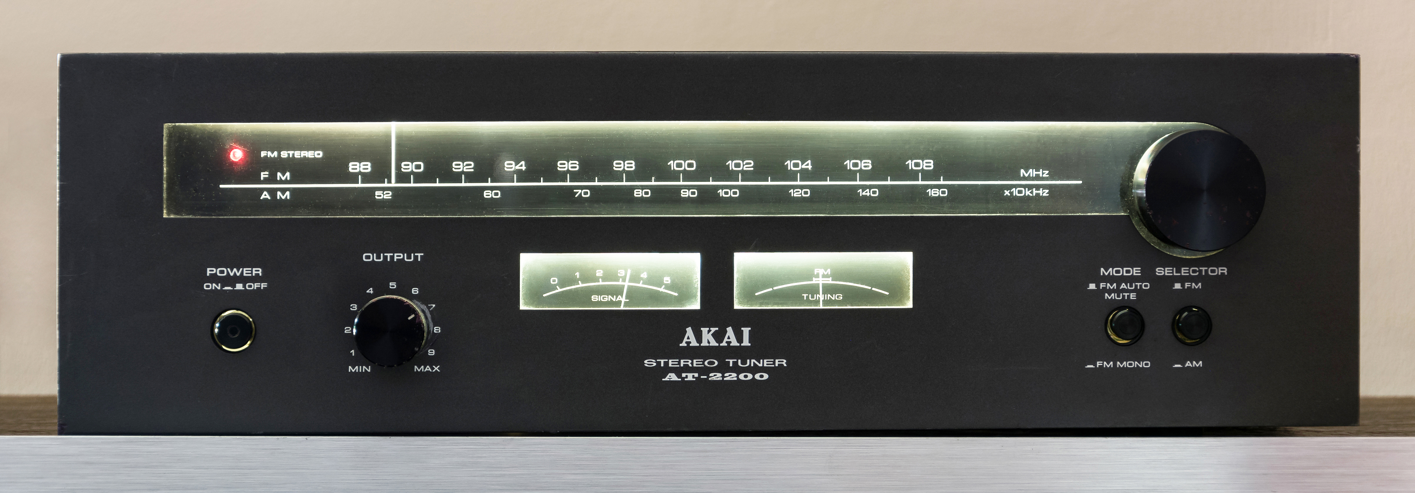 Akai AT-2200 tuner